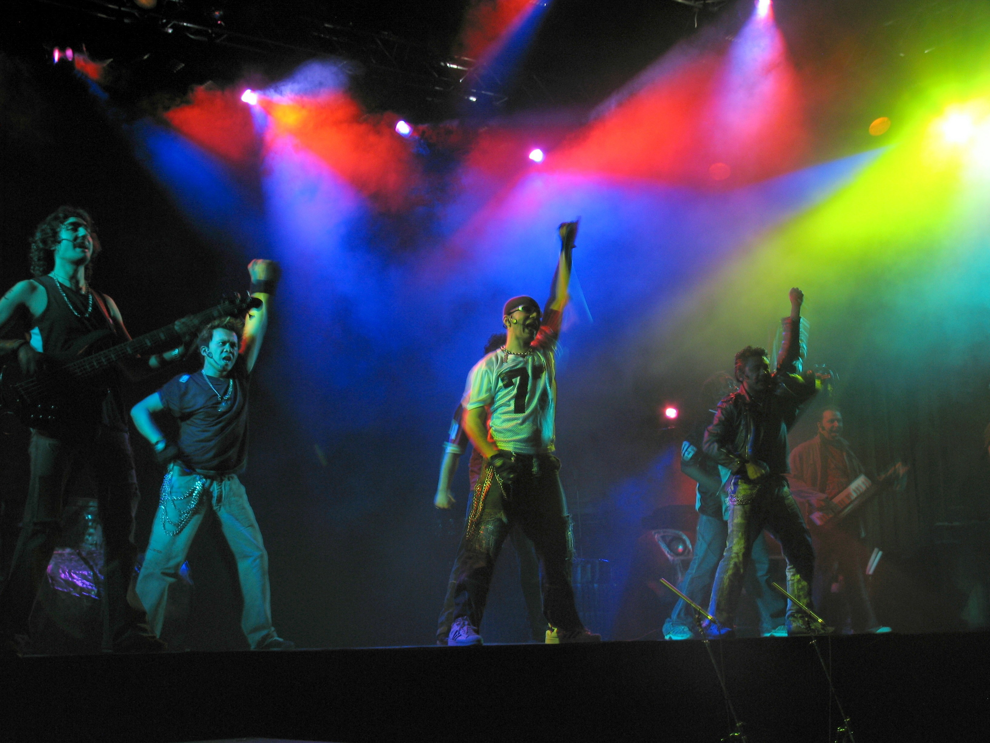 Gen Rosso live in Kecskemét, 2008